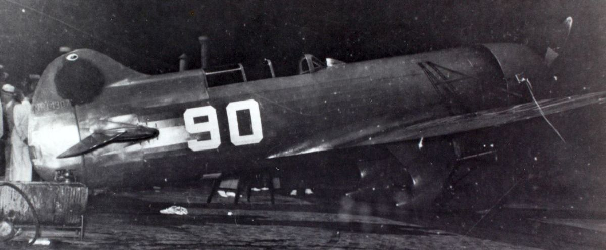 Repository: San Diego Air and Space Museum ArchiveWilliam Munger worked for the Granville Brothers on several projects, including the Gee Bees. This collection documents his life in aviation.